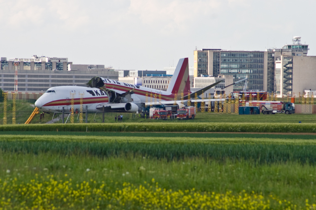 A Kalitta Boeing 747 cargo airplane crashed at the end of the runway of Brussels International Airport and split in two. See more news at CNN.